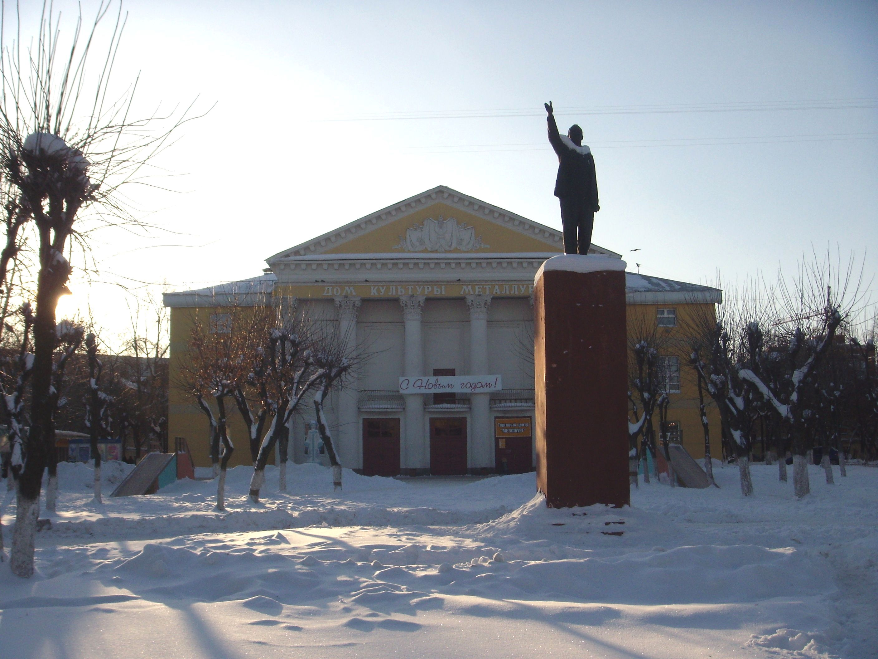 House of Culture factory «OCM», Kirov